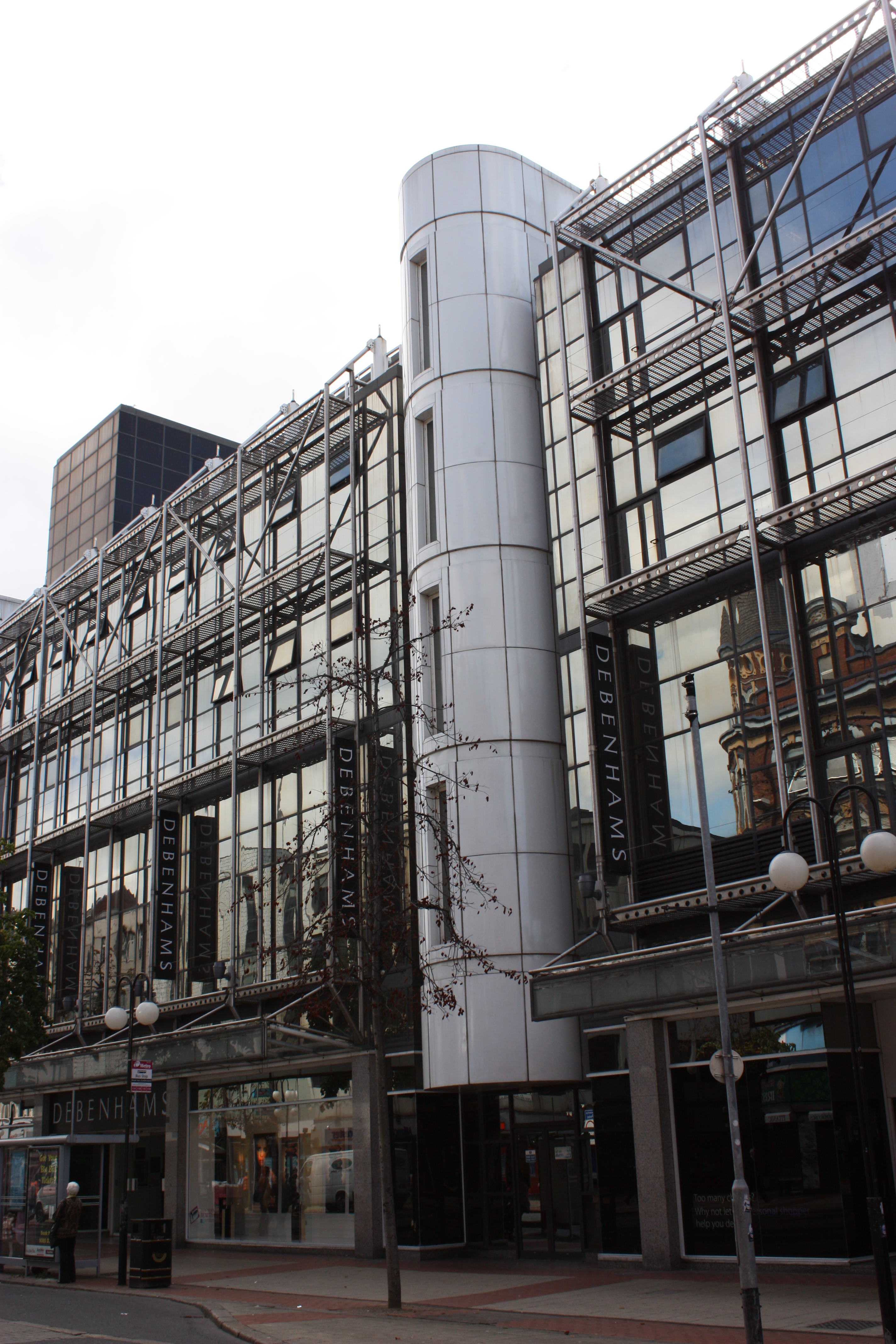 Debenhams at Castle Court shopping centre, Royal Avenue, Belfast, Northern Ireland, July 2010